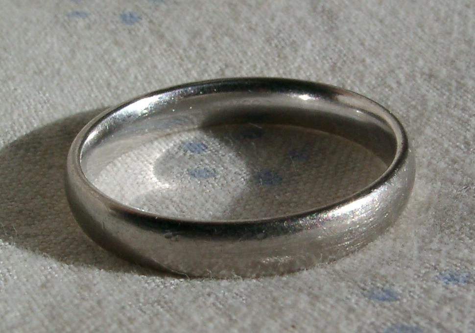 White gold (palladium gold alloy) ring with rhodium plating